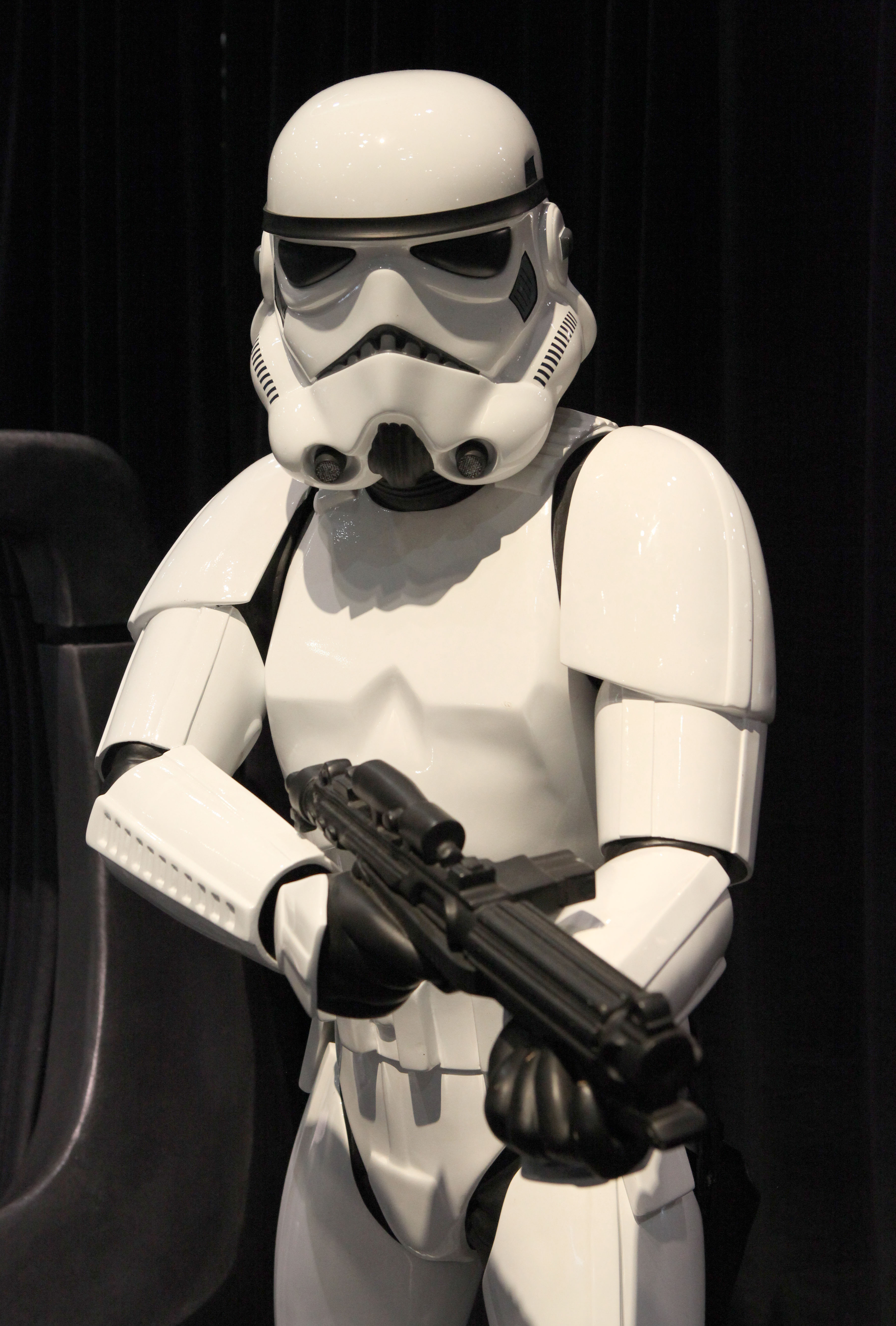 A stormtrooper costume at Star Wars Celebration VI.